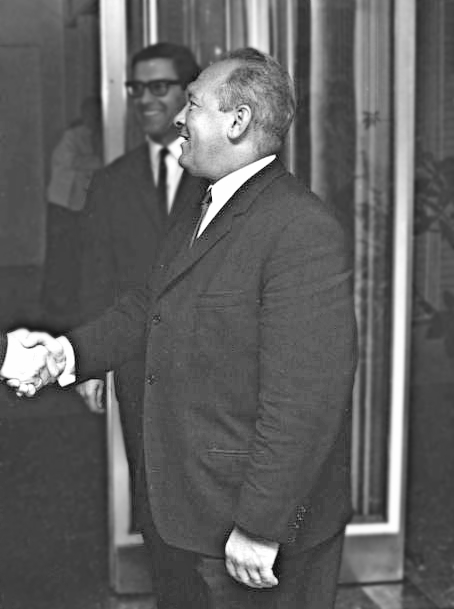 Title: Bonn, Landesvertretung Bayern, Fußballmannschaft Additional information: Zlatko (Tschik) Čajkovski Factual corrections and alternative descriptions are encouraged separately from the original description. Additionally errors can be reported at this page to inform the Bundesarchiv. Original historic description: Staatsmin. Heubl, Bayer. Landesvertretung, empfängt die Fußballmannschaft Bayern-München (Europa-Cup-Sieger)